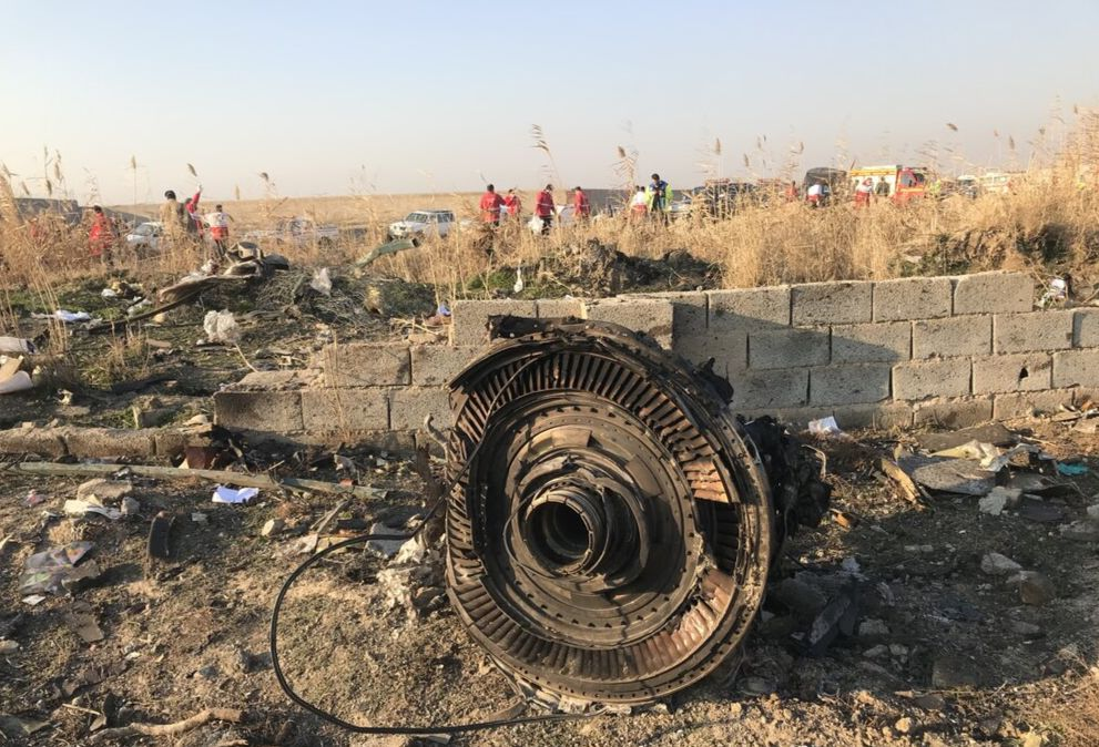 Ukraine International Airlines Flight 752